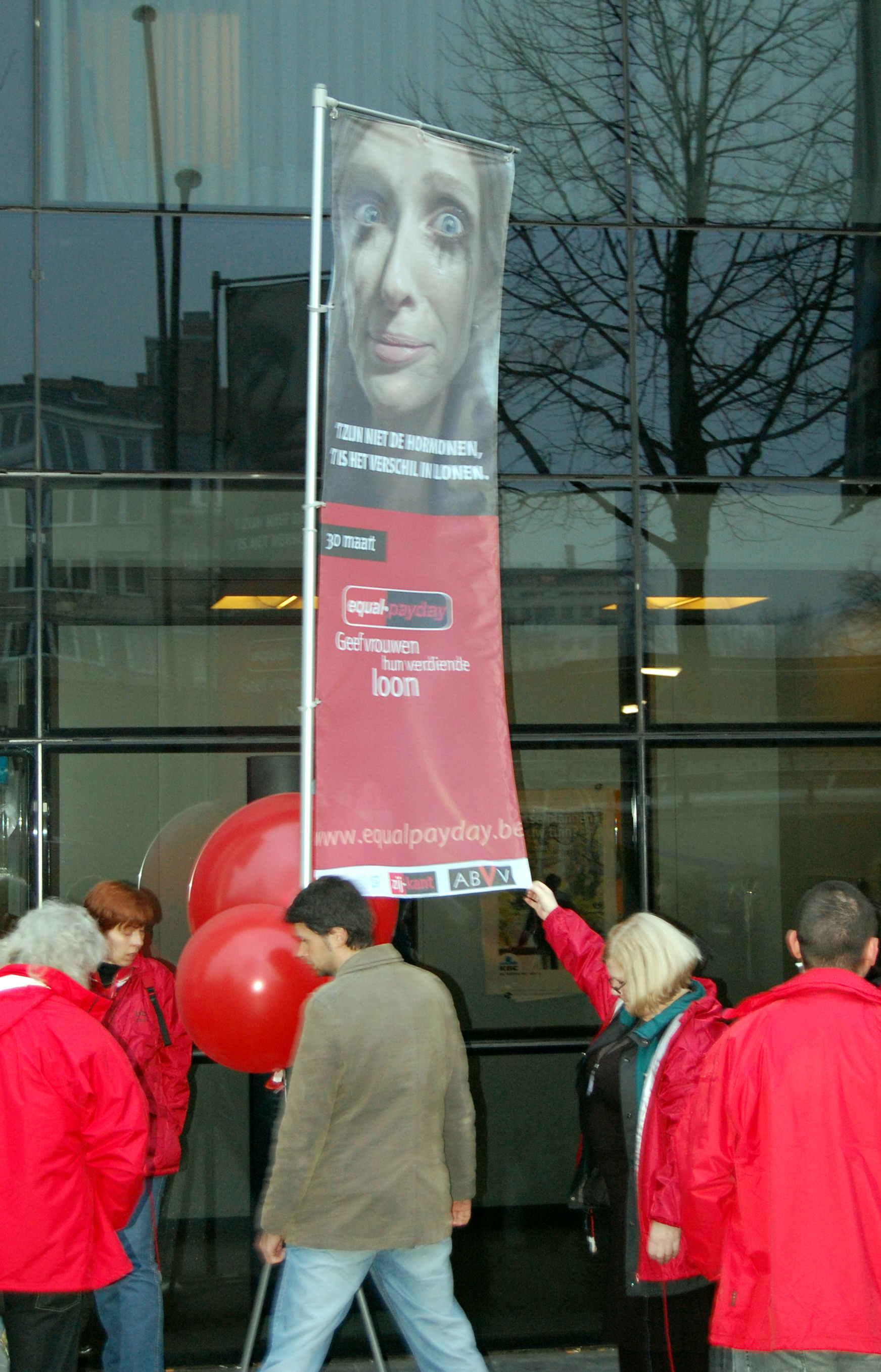 Pictures from Equal Pay Day actions in Leuven.